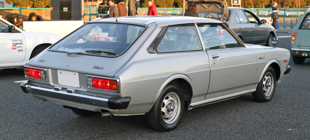 Toyota Corolla Lift Back 1600 (TE52, 12T engine TTC-L)